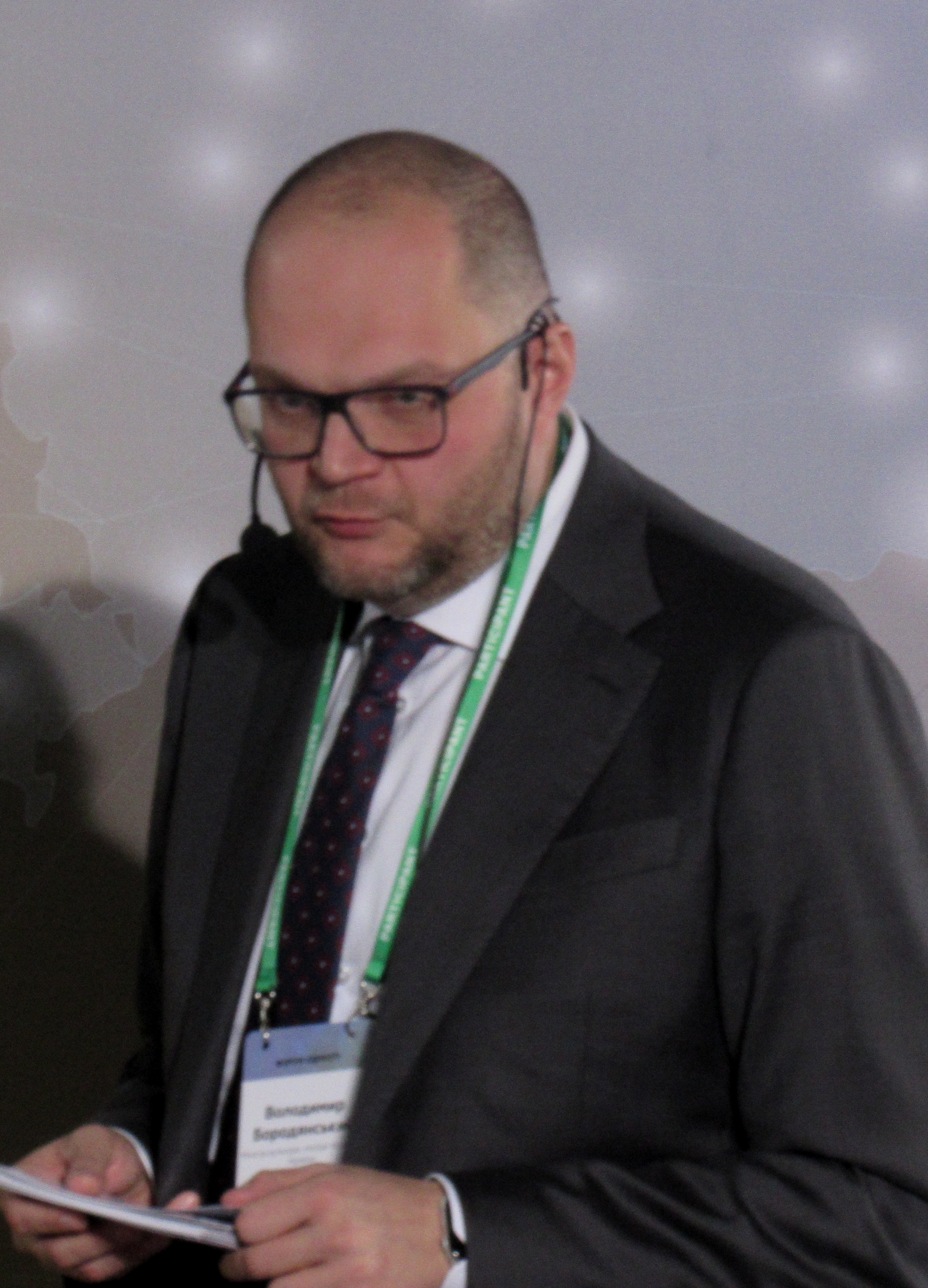 Minister of culture of Ukraine Volodymyr Borodianskyi at the Unity Forum in Mariupol, 30th October, 2019.